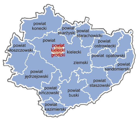 Map of the powiaty (counties) of Świętokrzyskie Voivodeship